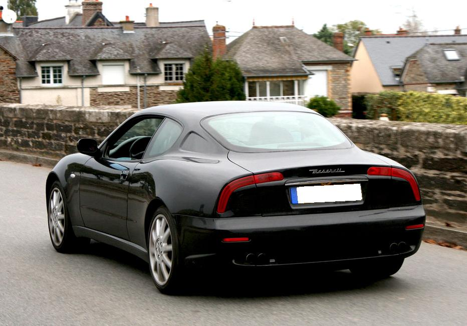 Maserati 3200GT Taillights